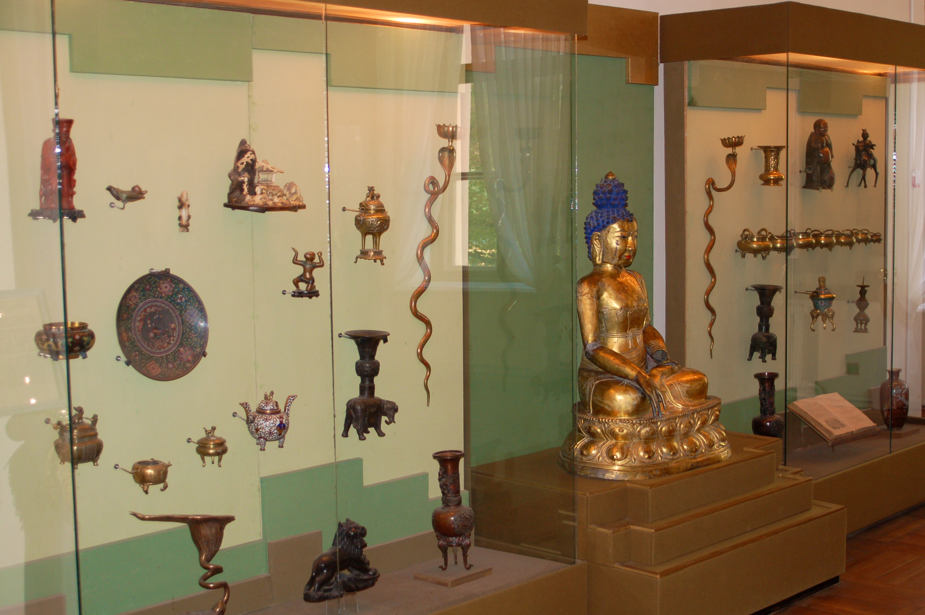 Part of general Paul von Rennenkampf's lootings now in collection of the Alferaki Palace museum